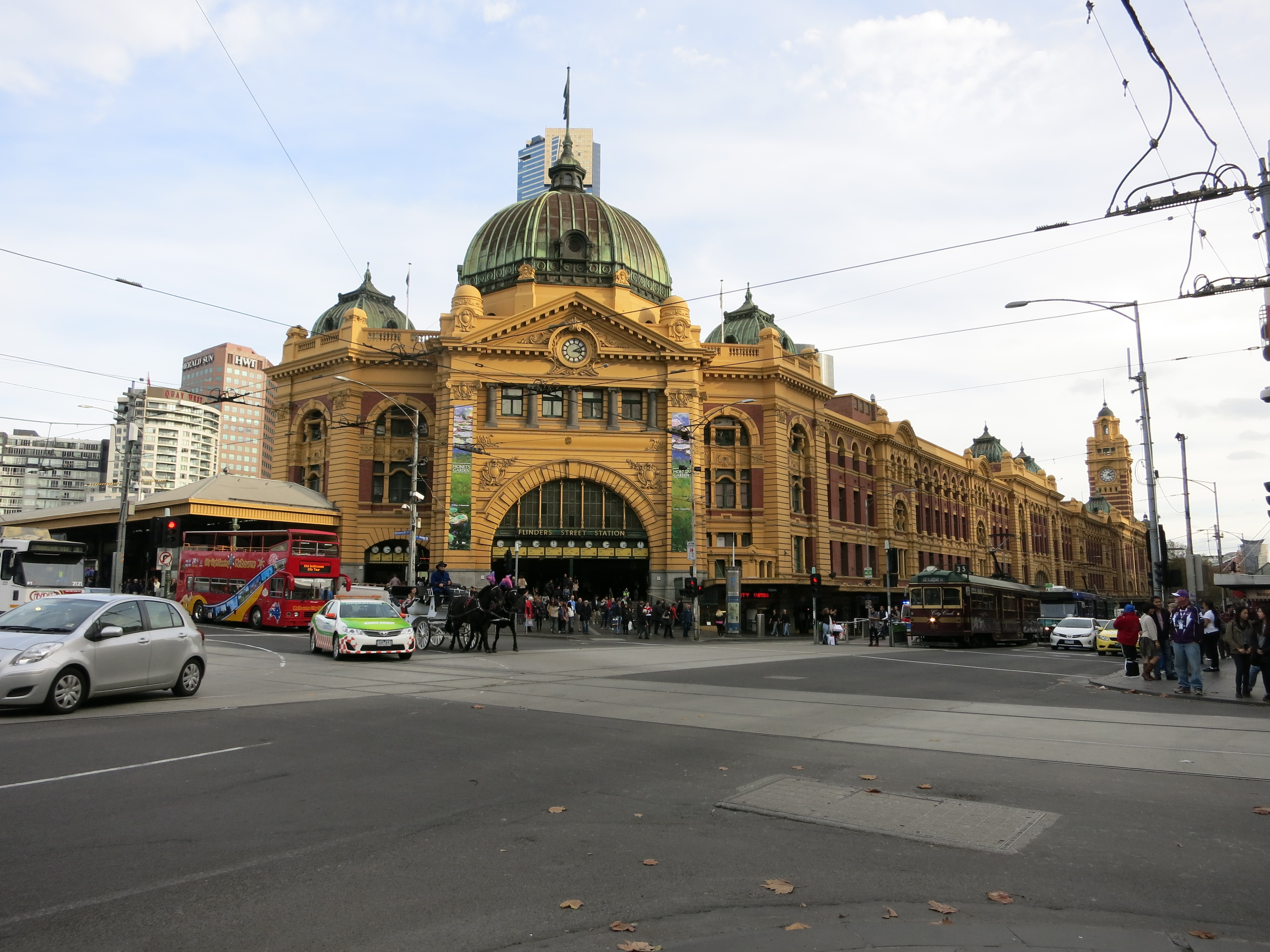 Flinders Street Station photographed from diagonally across the main intersection. Melbourne, Australia.